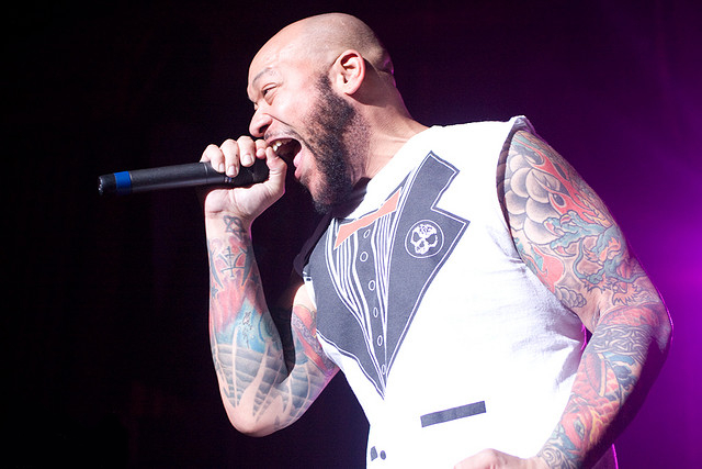 Howard Jones of Killswitch Engage vocalist